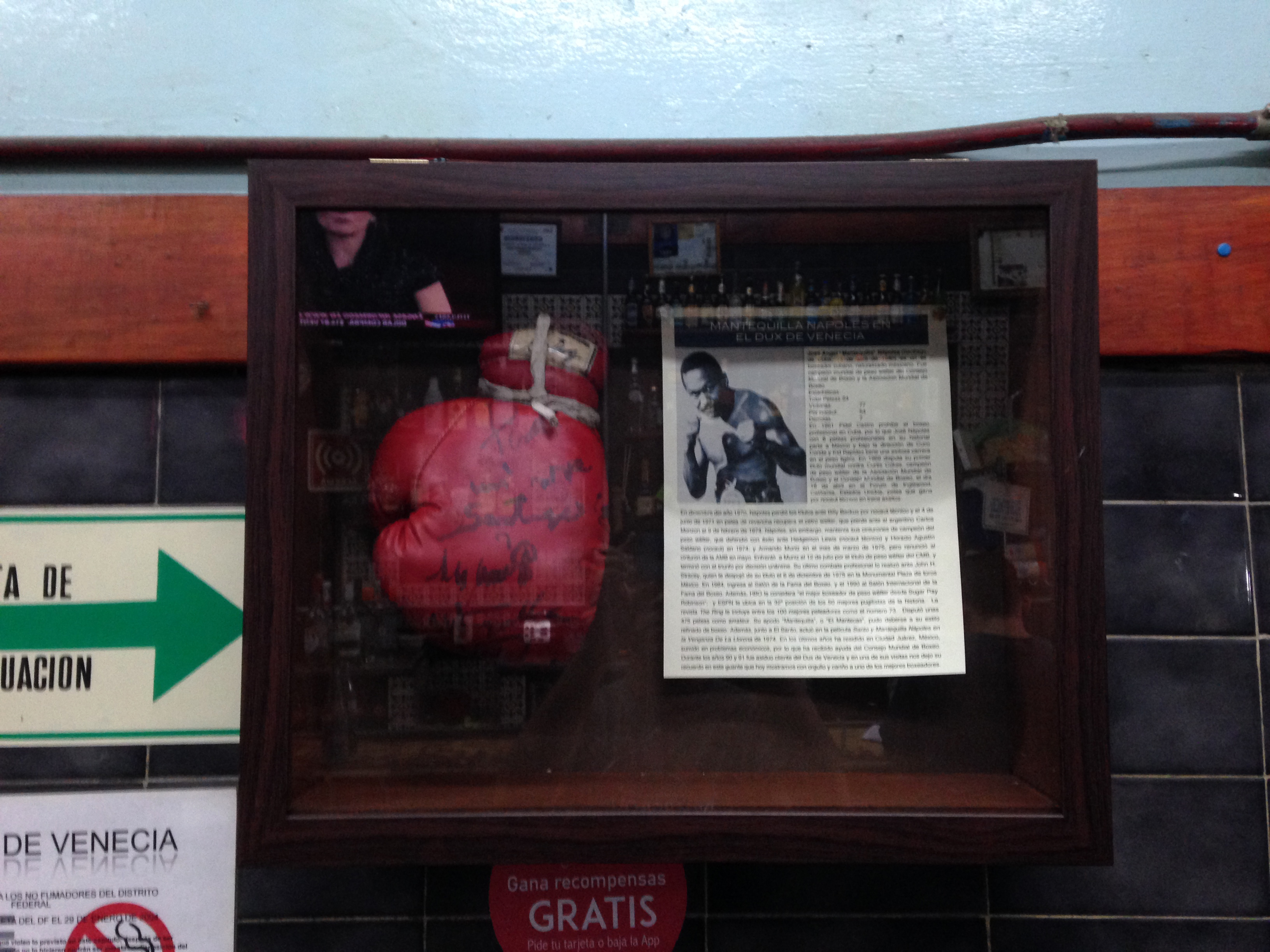 José Ángel "Mantequilla" Nápoles boxing glove at El Dux de Venecia (The Doge of Venice) cantina in Azcapotzalco, Mexico City.